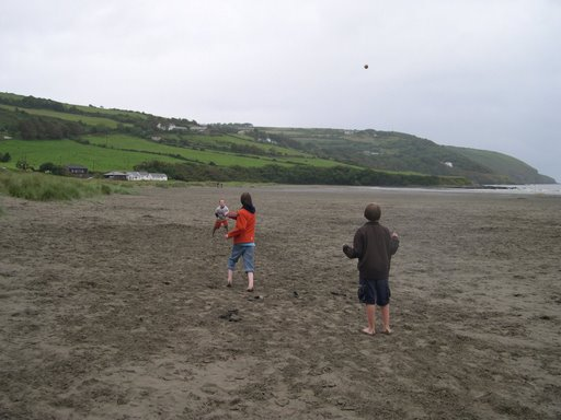 a family playing cricket at the beach near Poppit Sands.